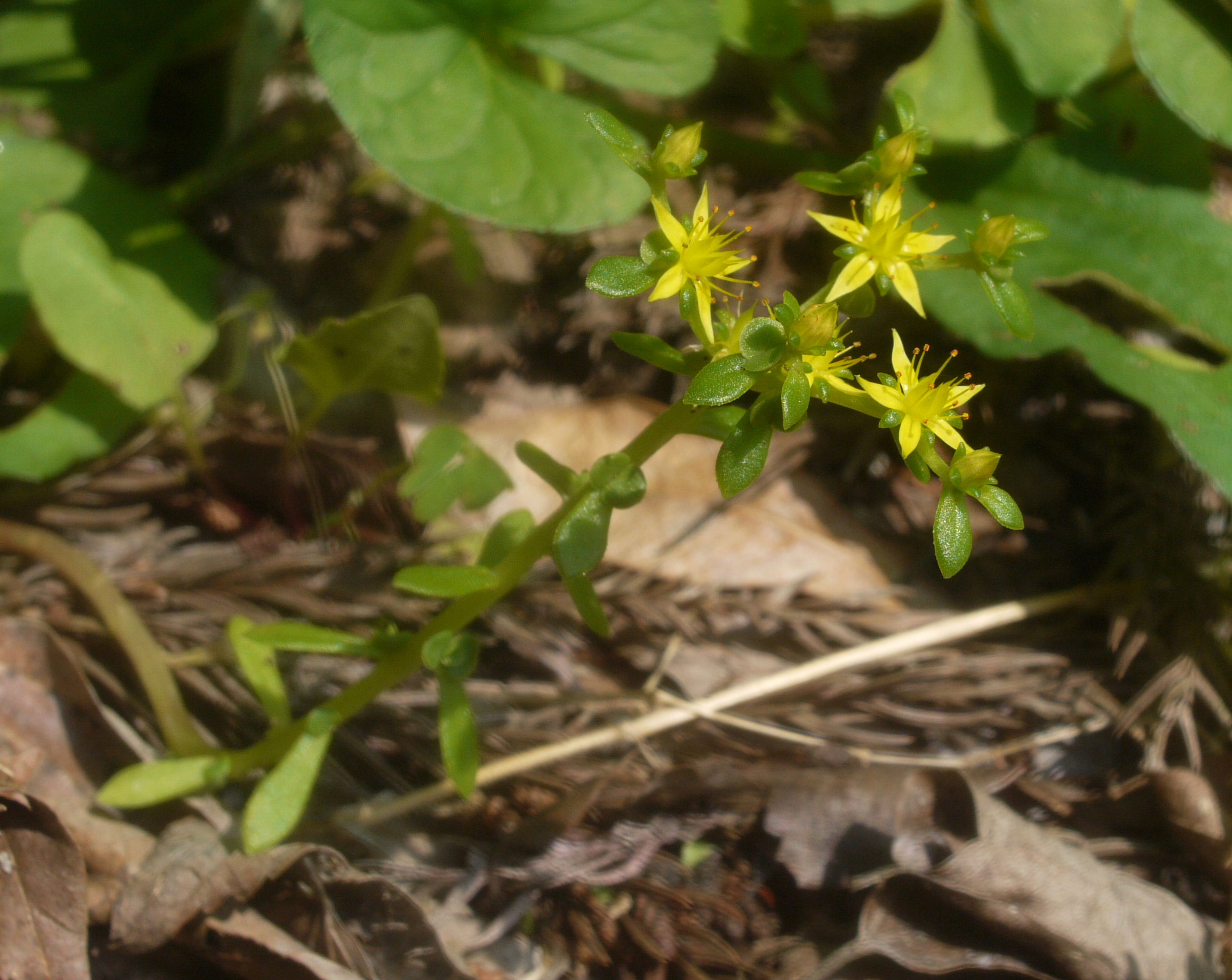 Sedum bulbiferum